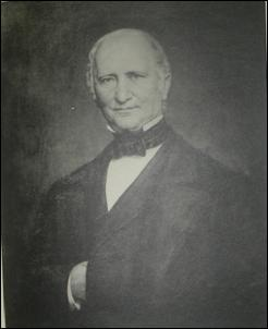 Hyacinthe Cartuyvels (1805-1890)